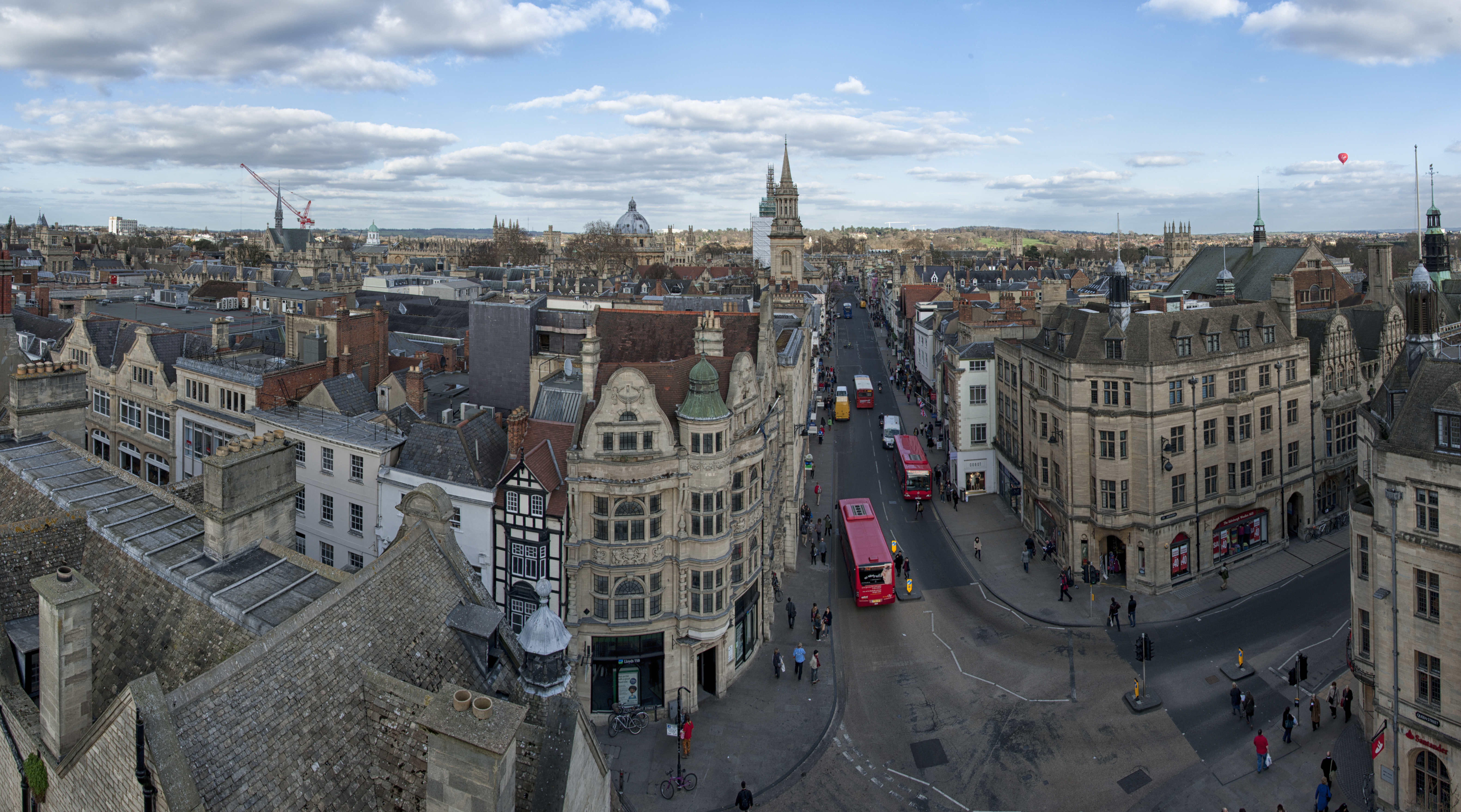 view from carfax tower oxford uk 2012